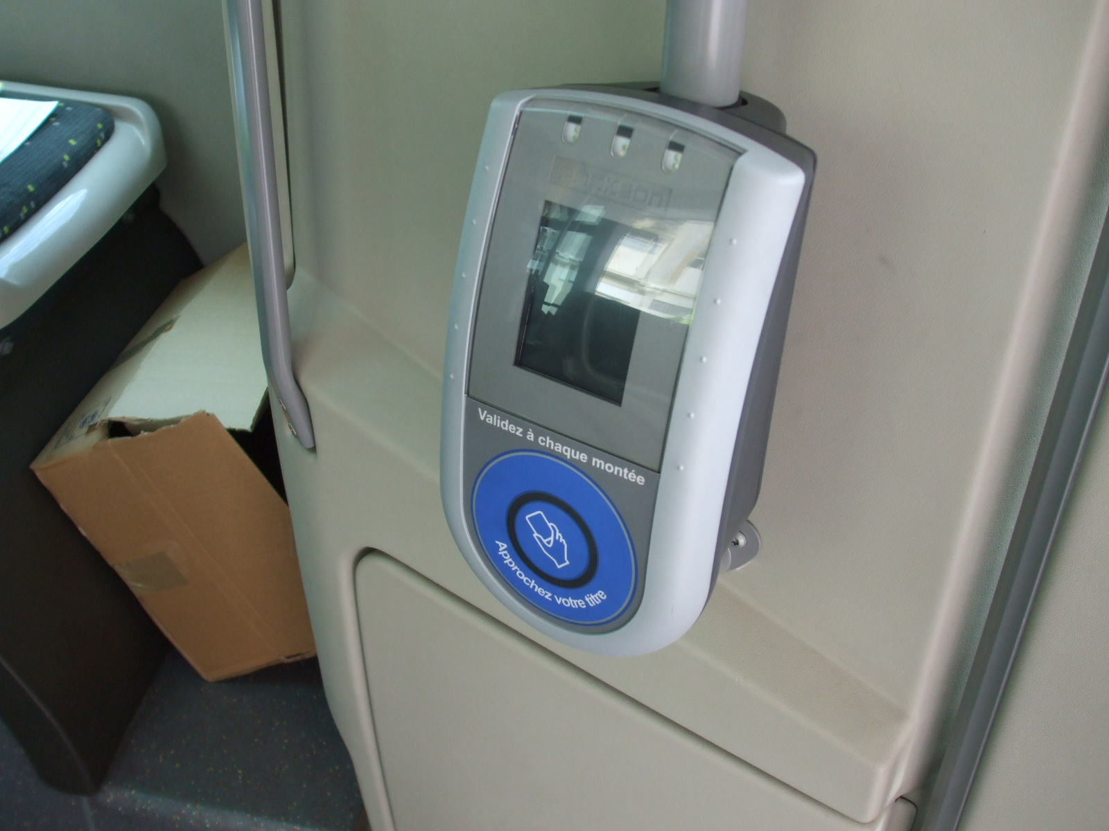 A without contact validor in rheims